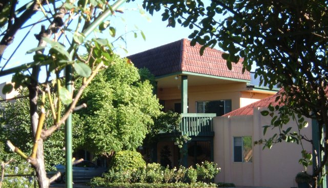 Photo of De Bortoli Wines Winery, at Bilbul (via Griffith), NSW, Australia. Photo taken by myself (Bill Robertson) 16th March 2006.